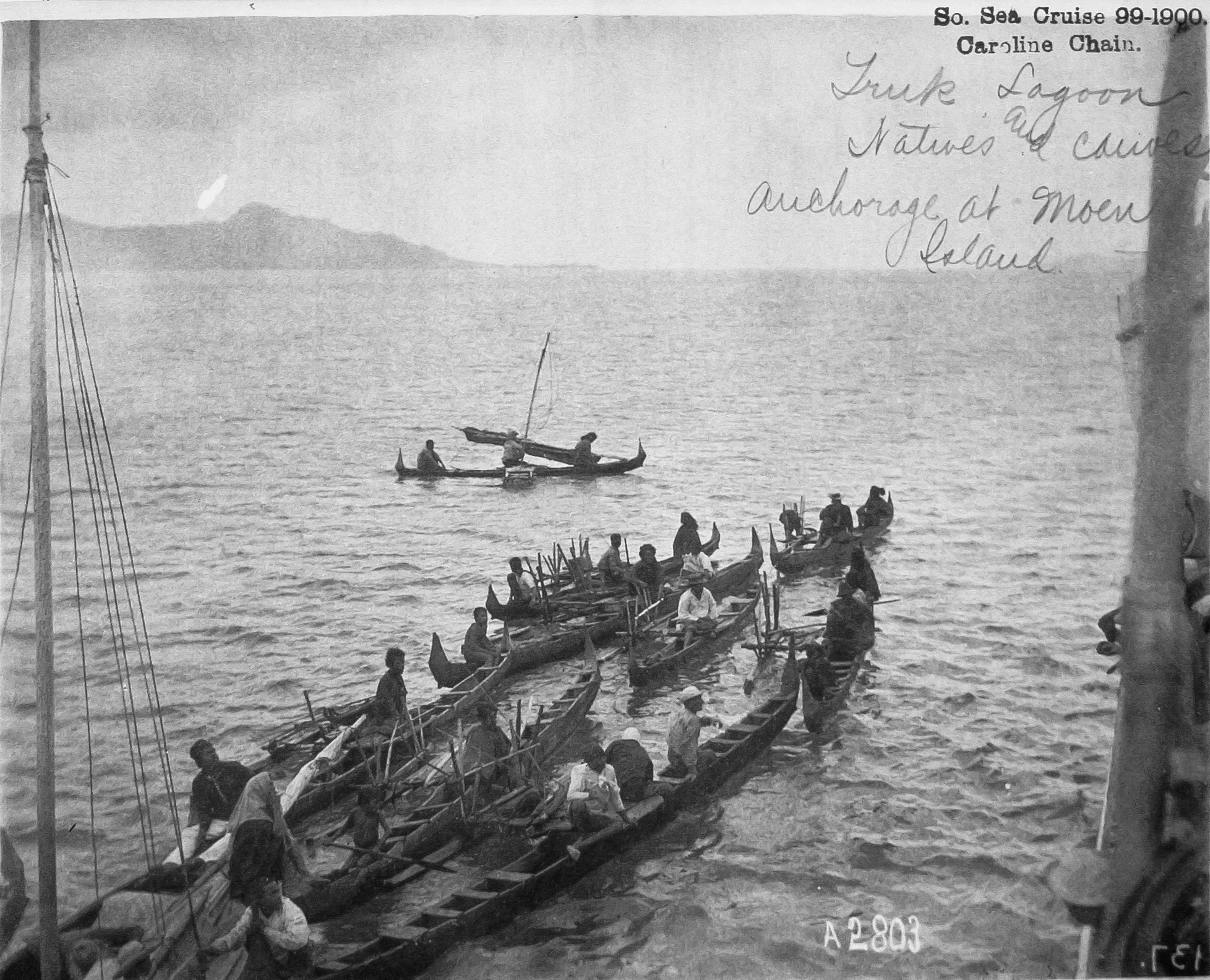 The Merchant Marine and Navy of Moen Island on Review in Truk Lagoon, Caroline Islands. Originally published in Volume 40 of National Geographic, 1921, p601.